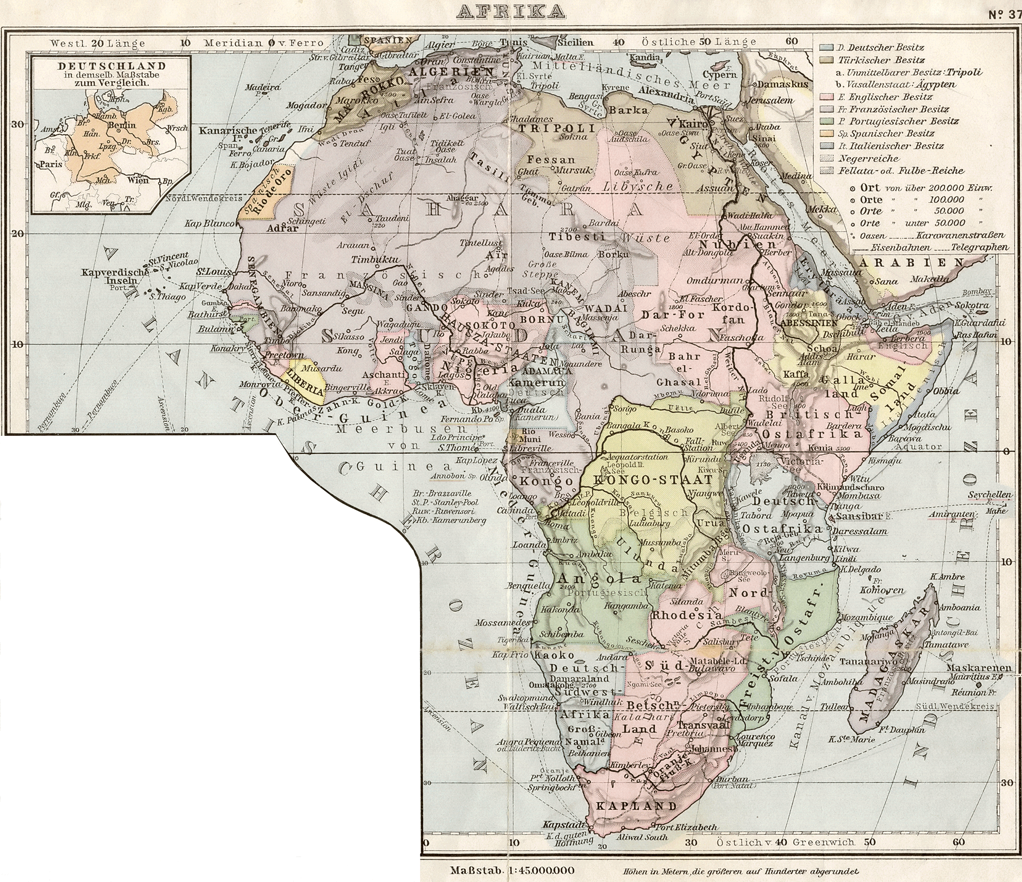 Historical map of Africa